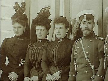 From left to right: Empress Alexandra Feodorovna, Grand Duchess Elena Vladimirovna (Grand Duke Vladimir Alexandrovich's daughter), Grand Duchess Marie Pavlovna (Vladimir's wife) and Tsar Nicholas II, all in mourning for the death of Nicholas's brother Grand Duke George in 1899.